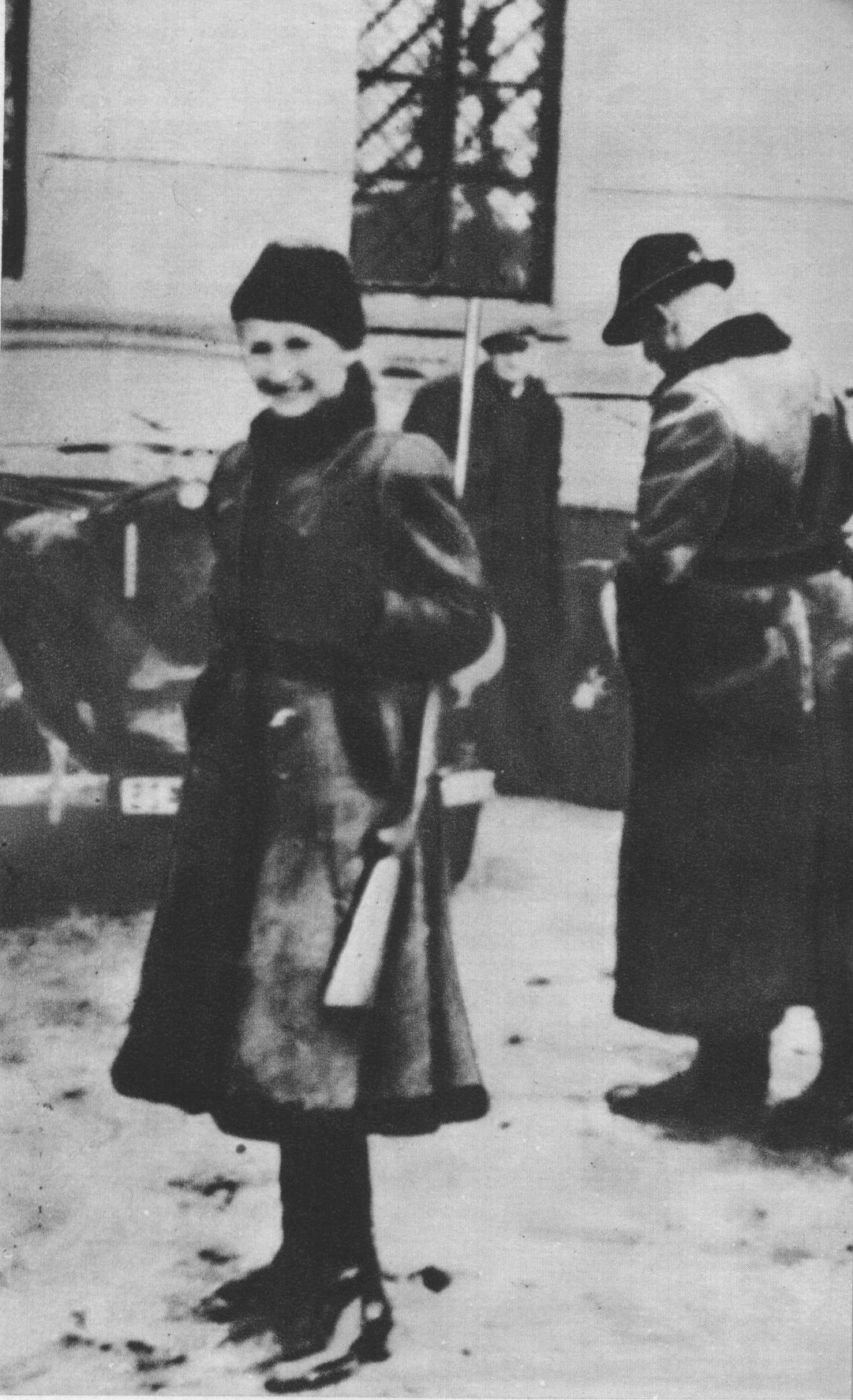 German-occupied Warsaw. Ludwig Hahn – Kommandeur der Sicherheitspolizei und des SD in Warsaw (first from the right) – and his wife Charoltte (in the foreground) photographed before the hunt. This photo was taken at the backyard of Gestapo Headquarter in Warsaw at Aleja Szucha 25.